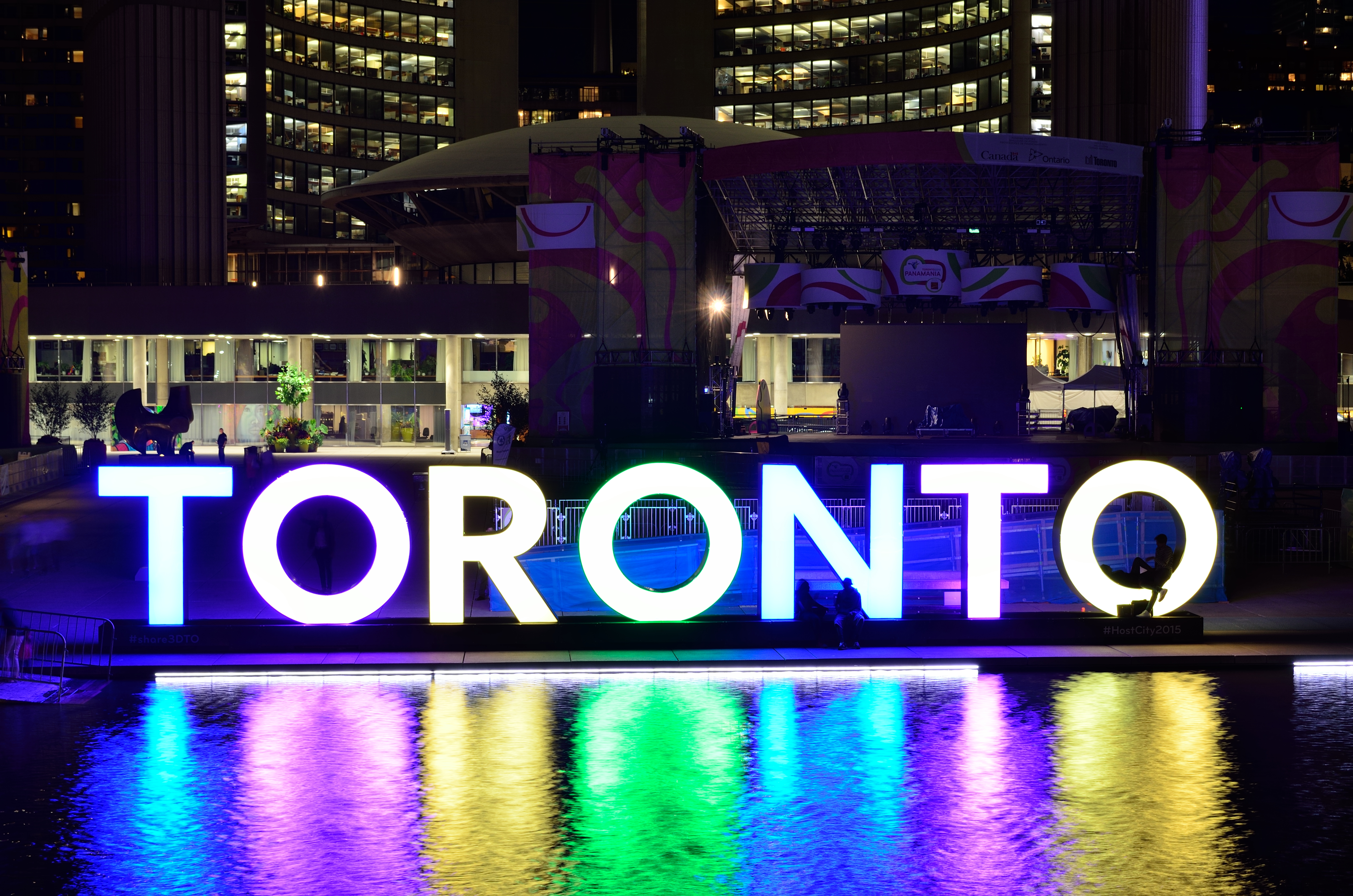 3D TORONTO sign in Nathan Phillips Square